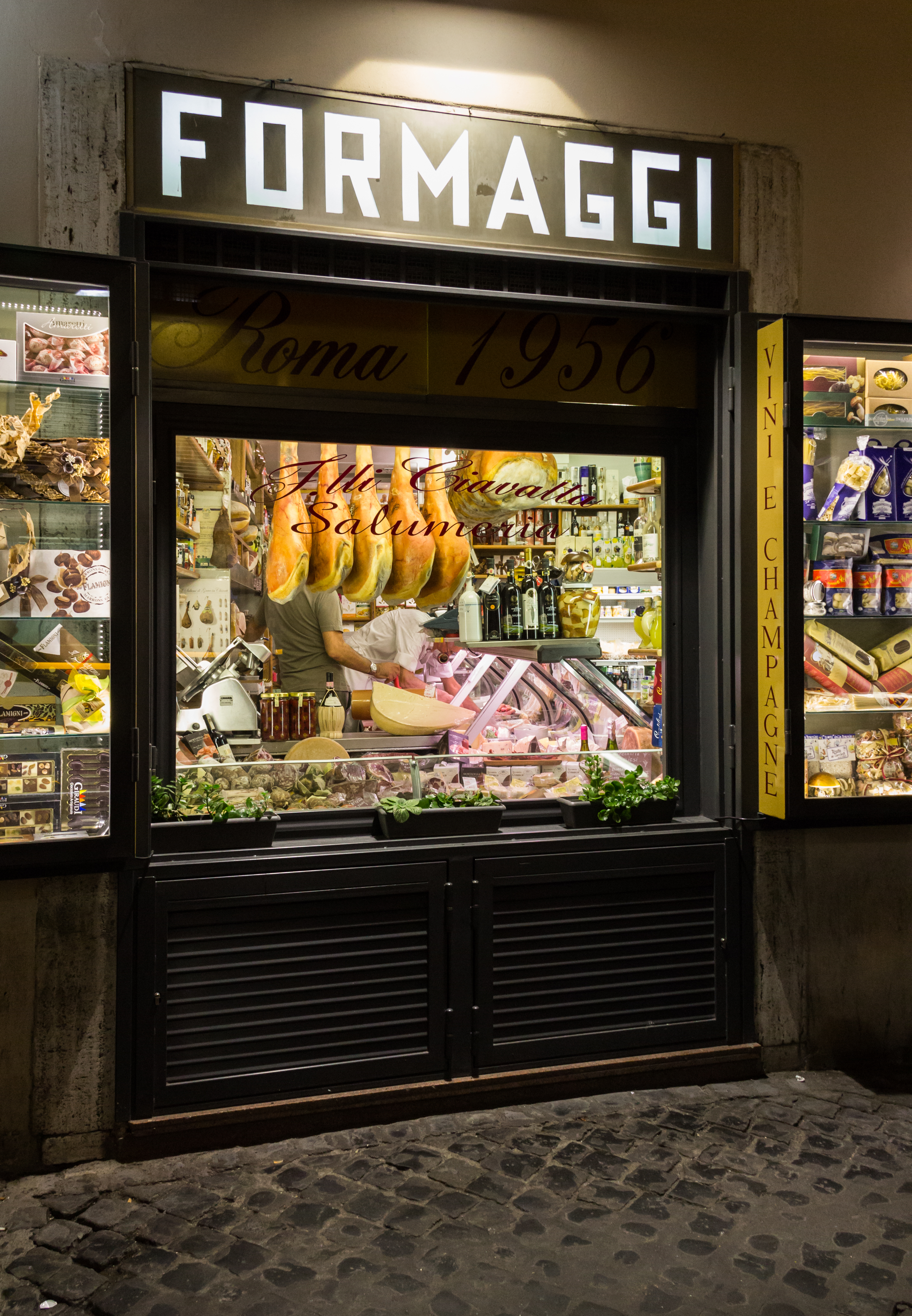 Cheese shop in Rome, Italy